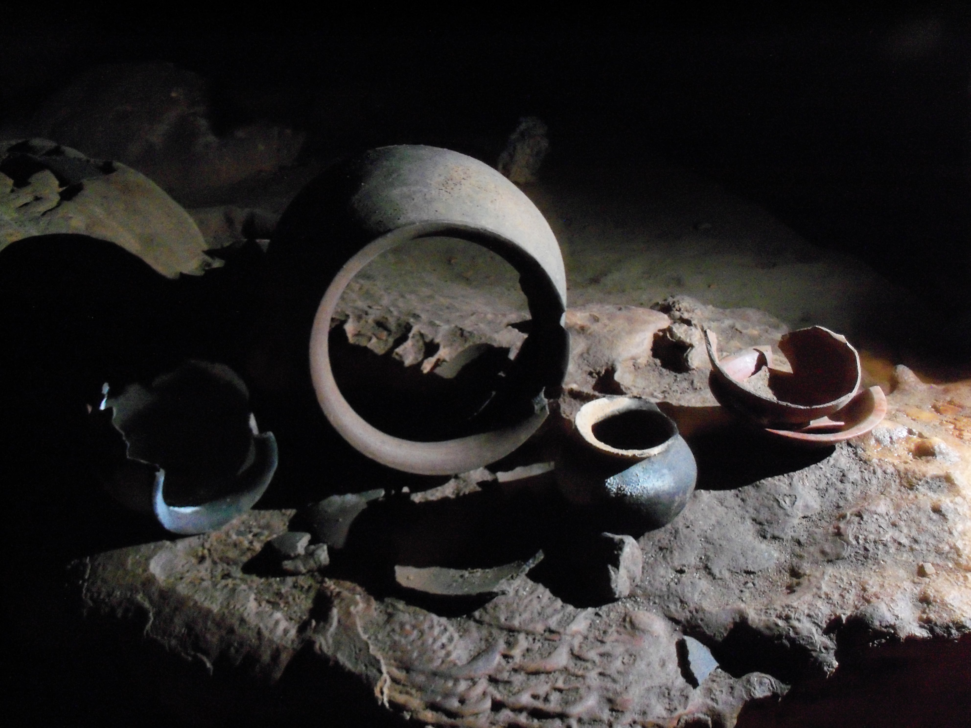 Mayan Pottery located in the cave of Actun Tunichil Muknal, Belize.